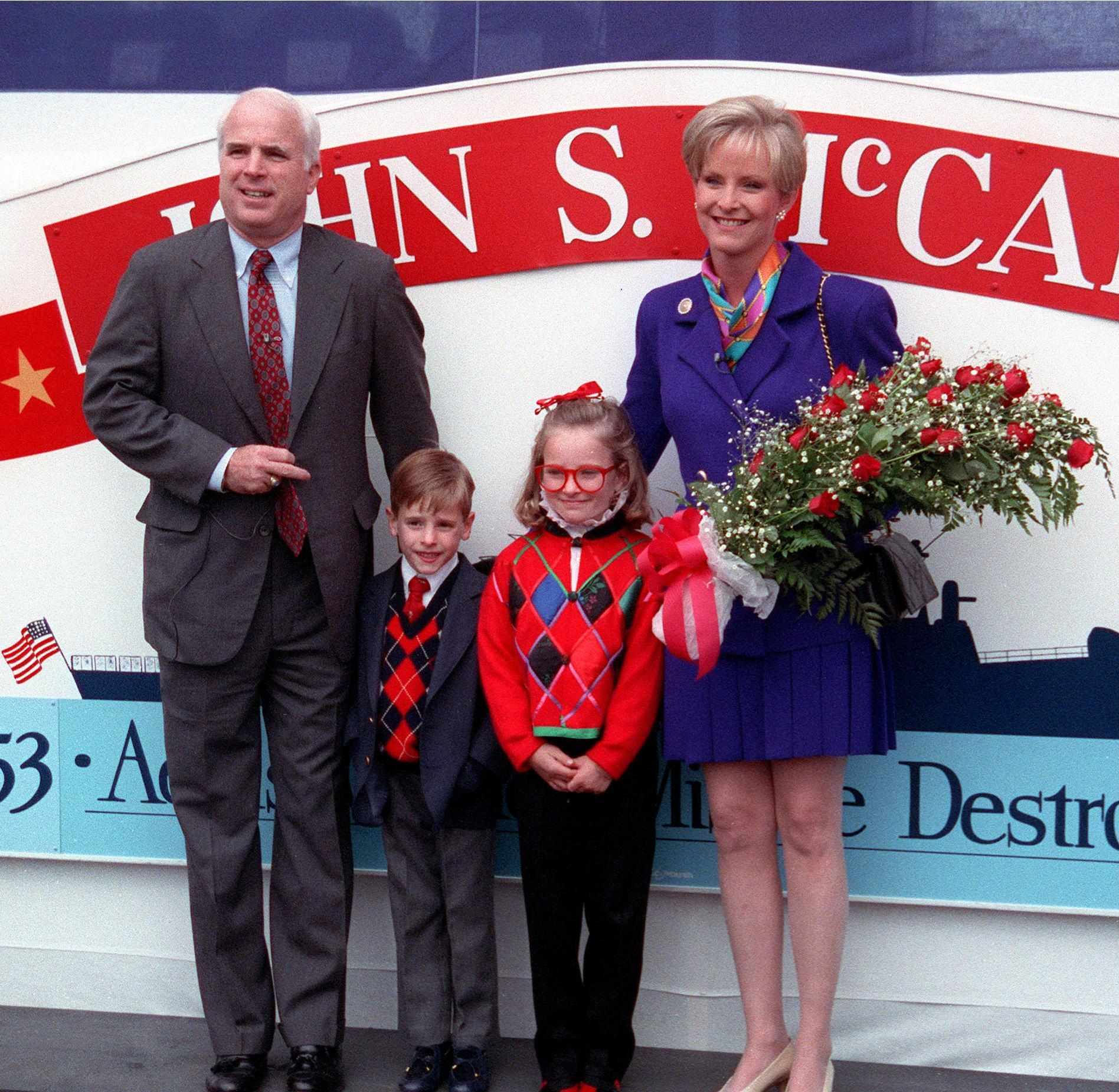 Members of the christening for the guided missile destroyer JOHN S. MCCAIN (DDG-56) pose for a photograph after the launching at the Bath Iron Works shipyard. They are, from right to left: Cindy McCain, daughter Meghan, son Jack, and husband Sen. John McCain.